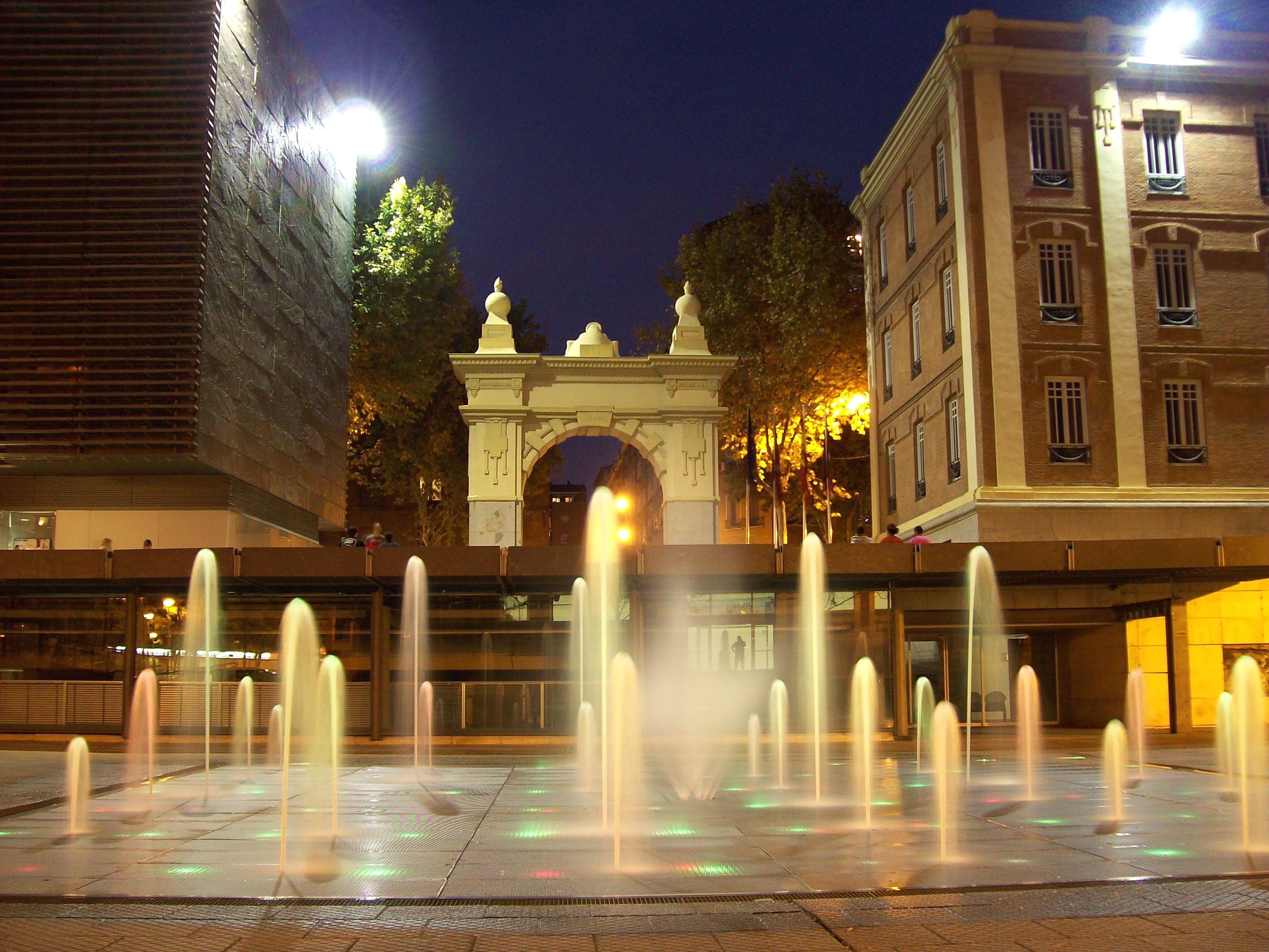 View of Lámina de Agua (literally "Water Sheet") fountain in Madrid (Spain), at 162 Avenida de la Ciudad de Barcelona (street) in Retiro district. Designed by Óscar Tusquets and inaugurated in 2005.